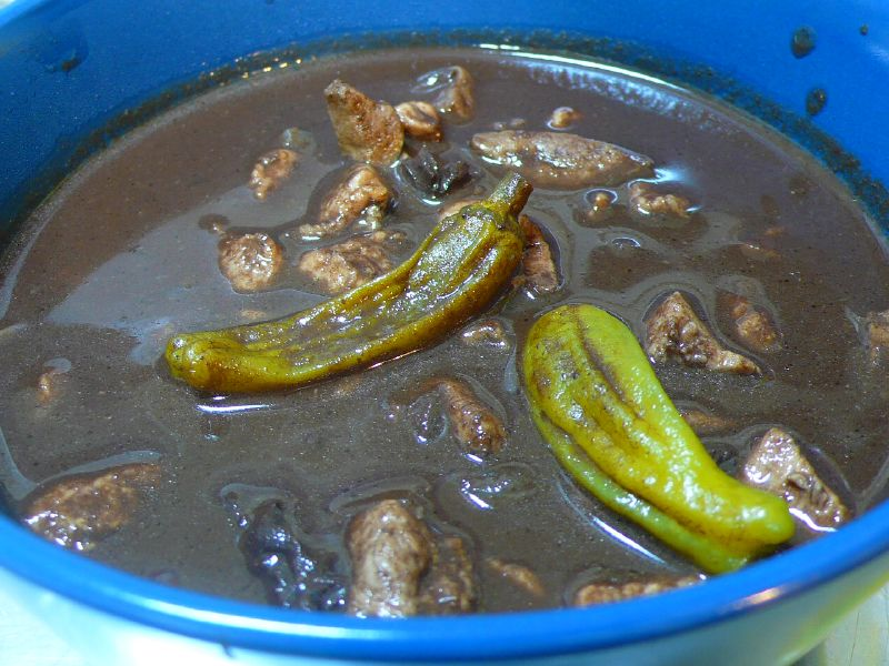 Pork Blood Stew. Bloody. hahaa! I eat swine.